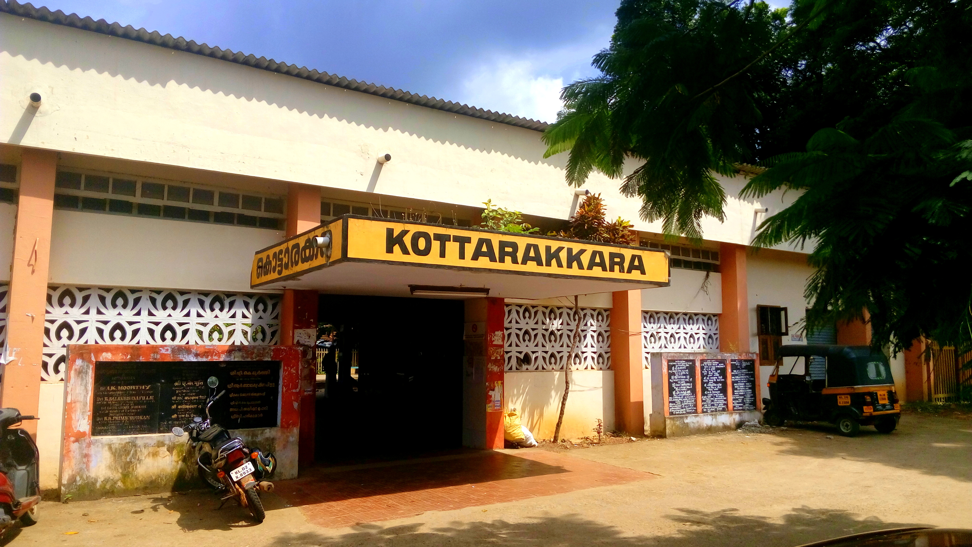 Ezhukone railway station is situated at the Indian district of Kollam